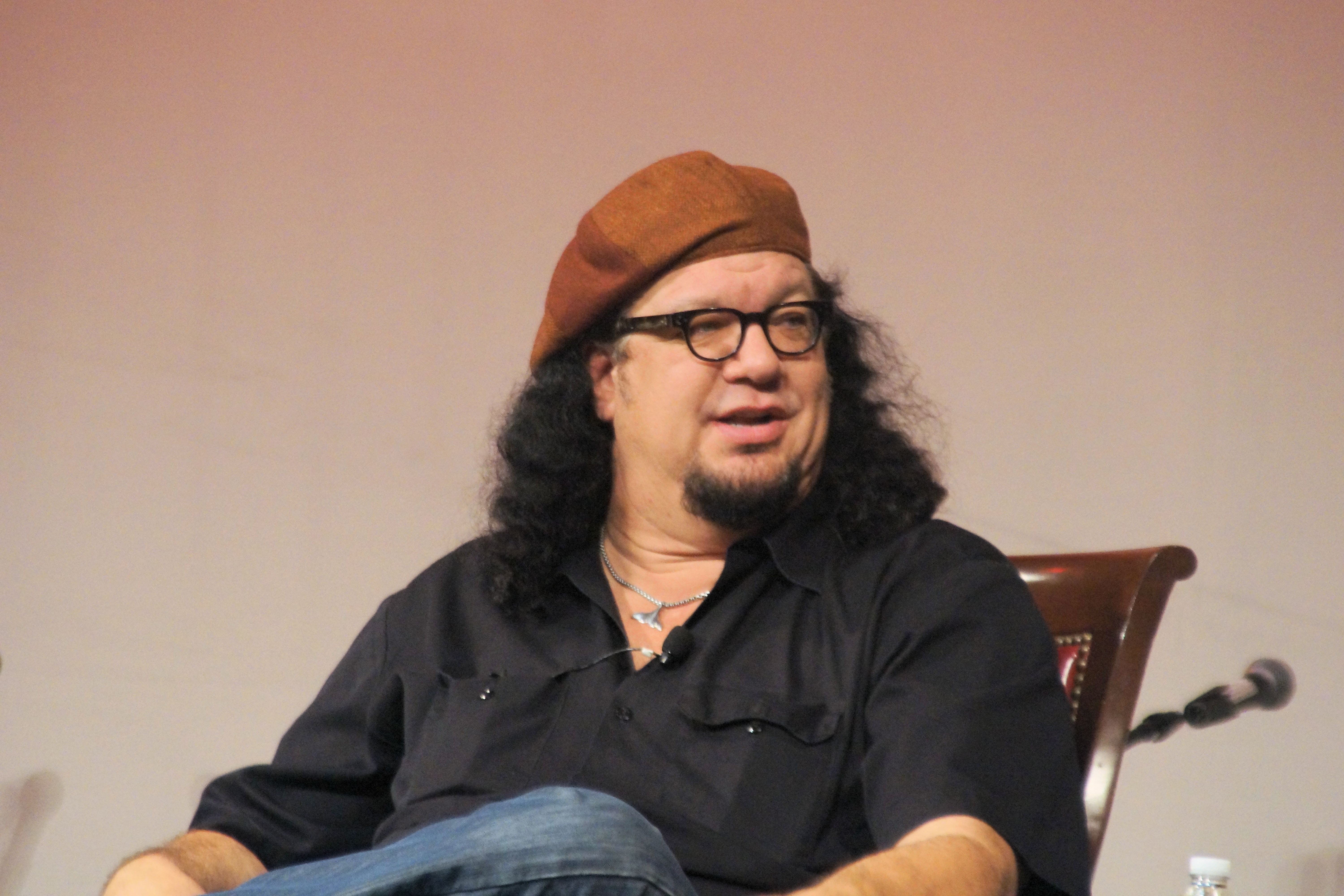 Penn Jillette speaking at The Amaz!ng Meeting 2012, July 14, 2012 at the Southpoint Casino, Las Vegas, Nevada